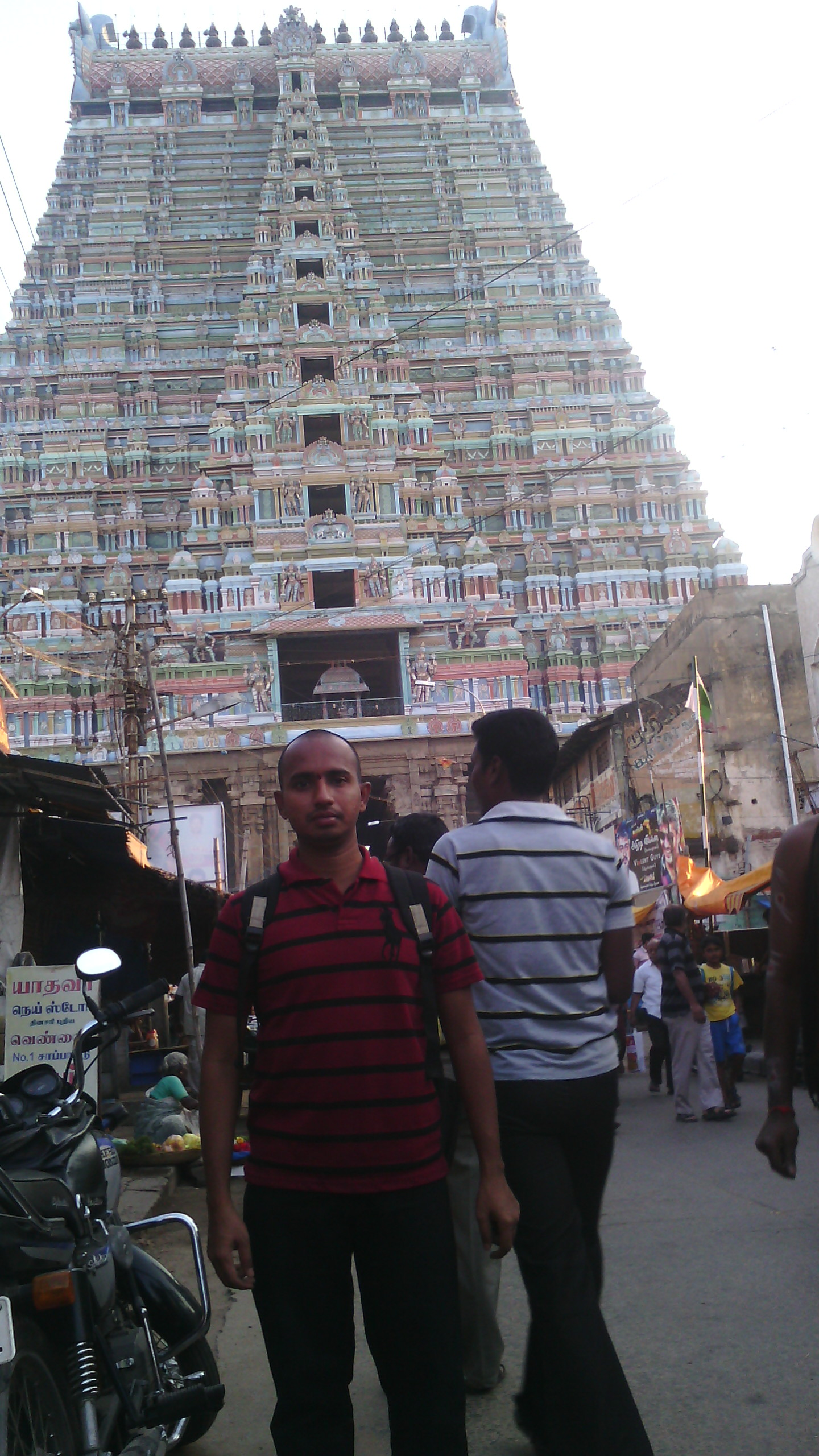 Sri Rangam Temple, Srirangam, TN